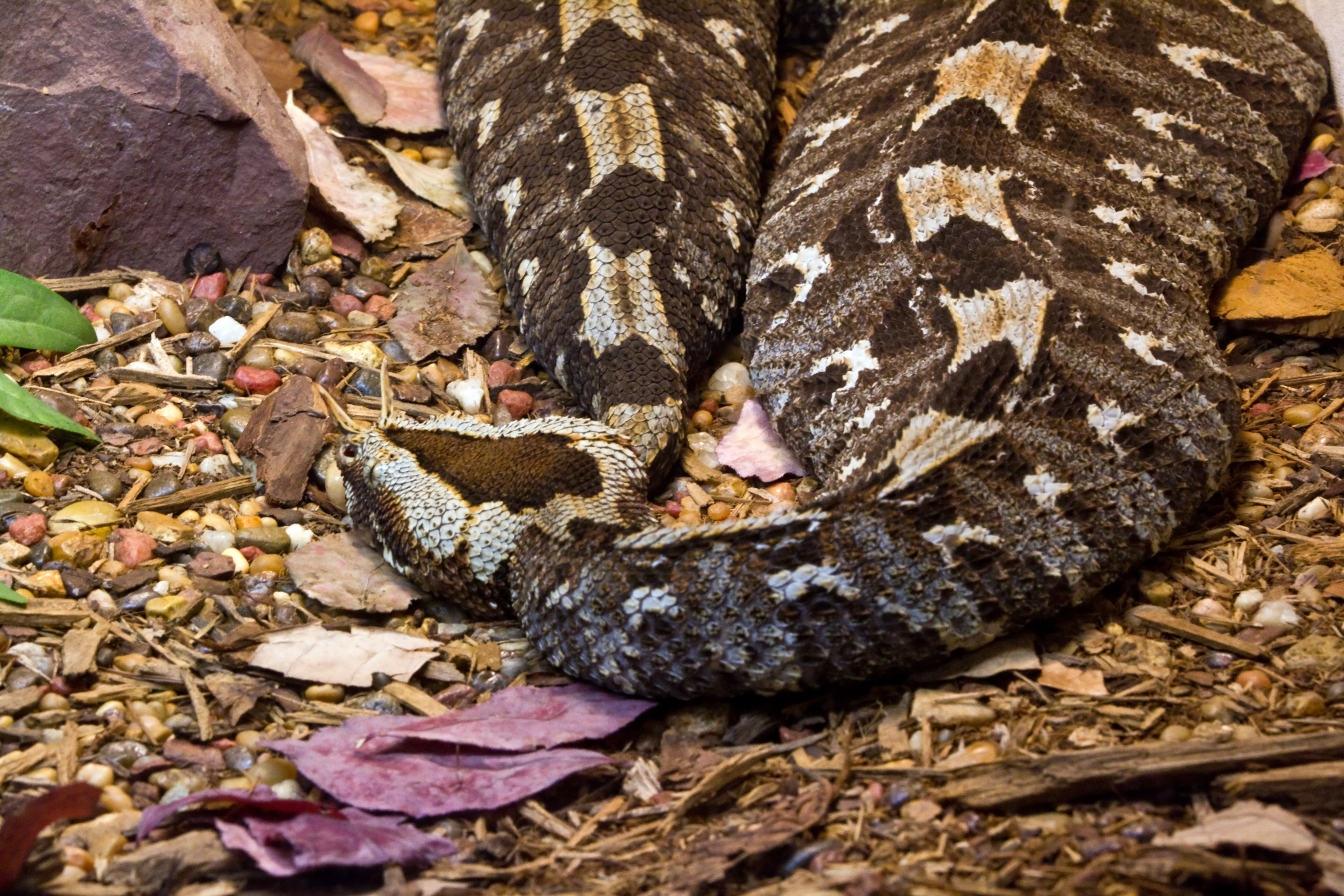 Rhinoceros viper - Bitis nasicornis taken at Cincinnati Zoo.